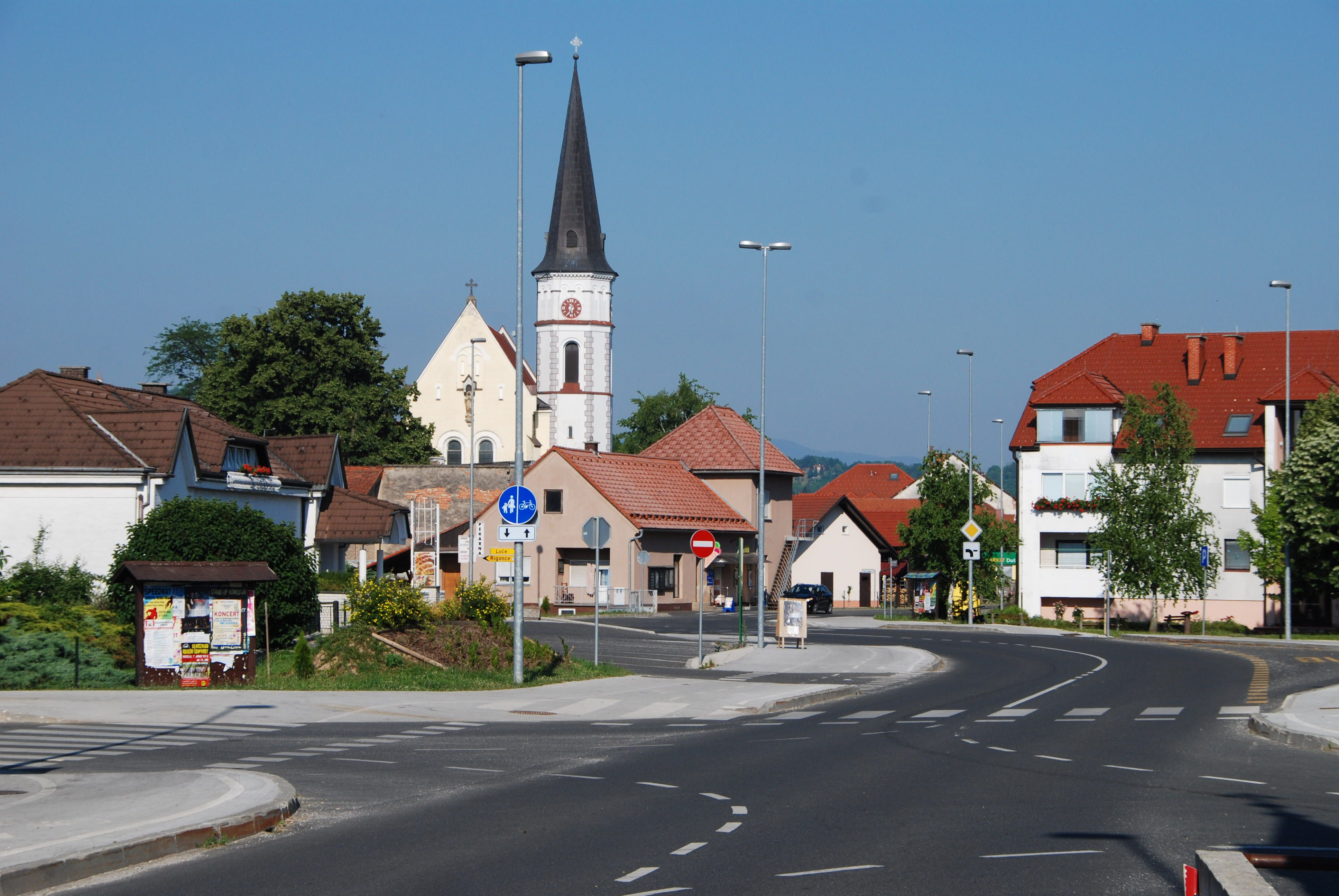 Dobova, a nucleated settlement in southeastern Slovenia.